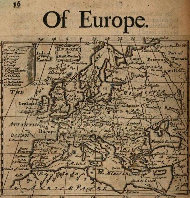 A from year 1700 European map